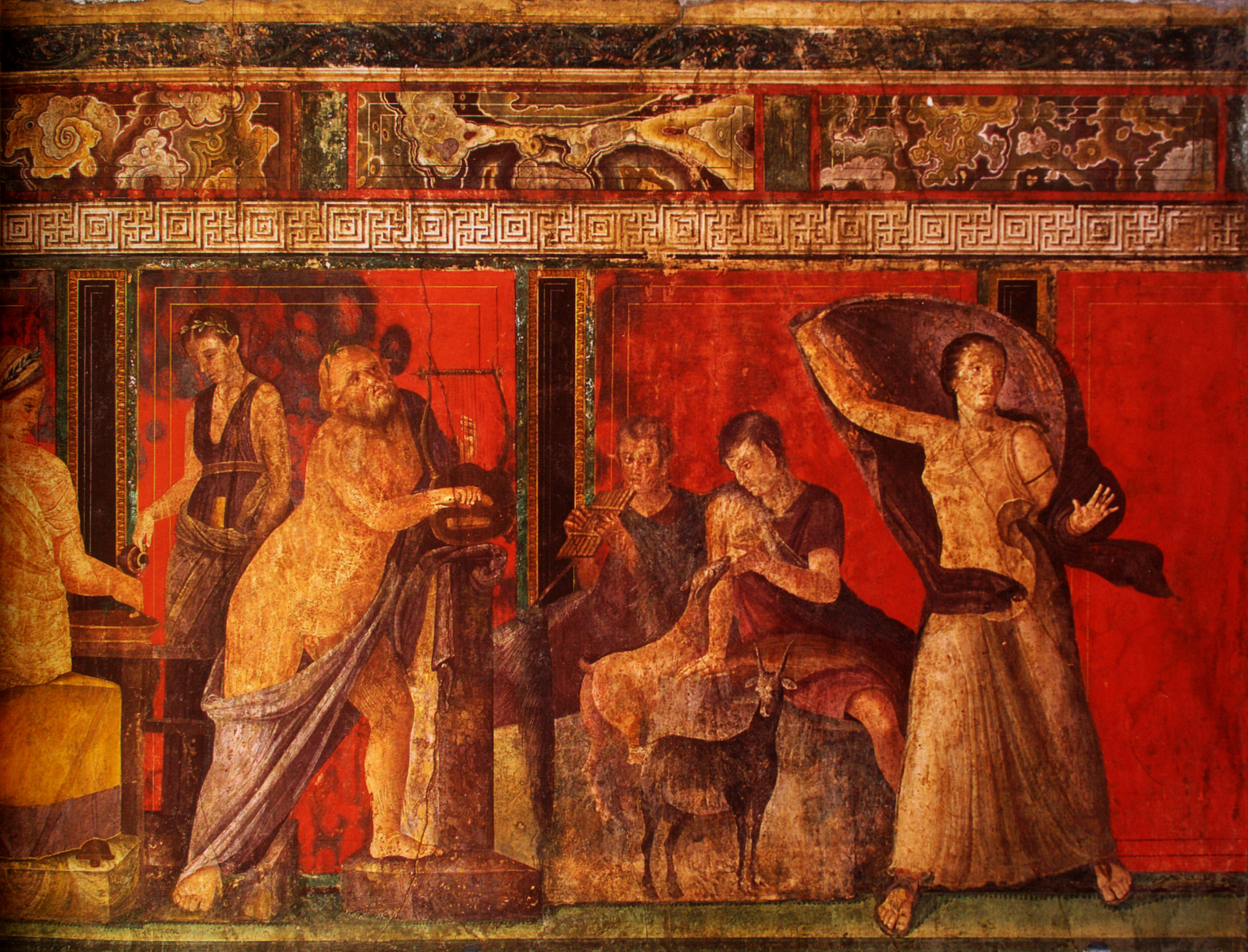 Silenus holding a lyre (left); demi-god Pan and a nymph sitting on a rock, nursing a goat (centre); woman with coat (right). Fresco of the mystery ritual, right, Villa of the Mysteries, Pompeii, Italy.